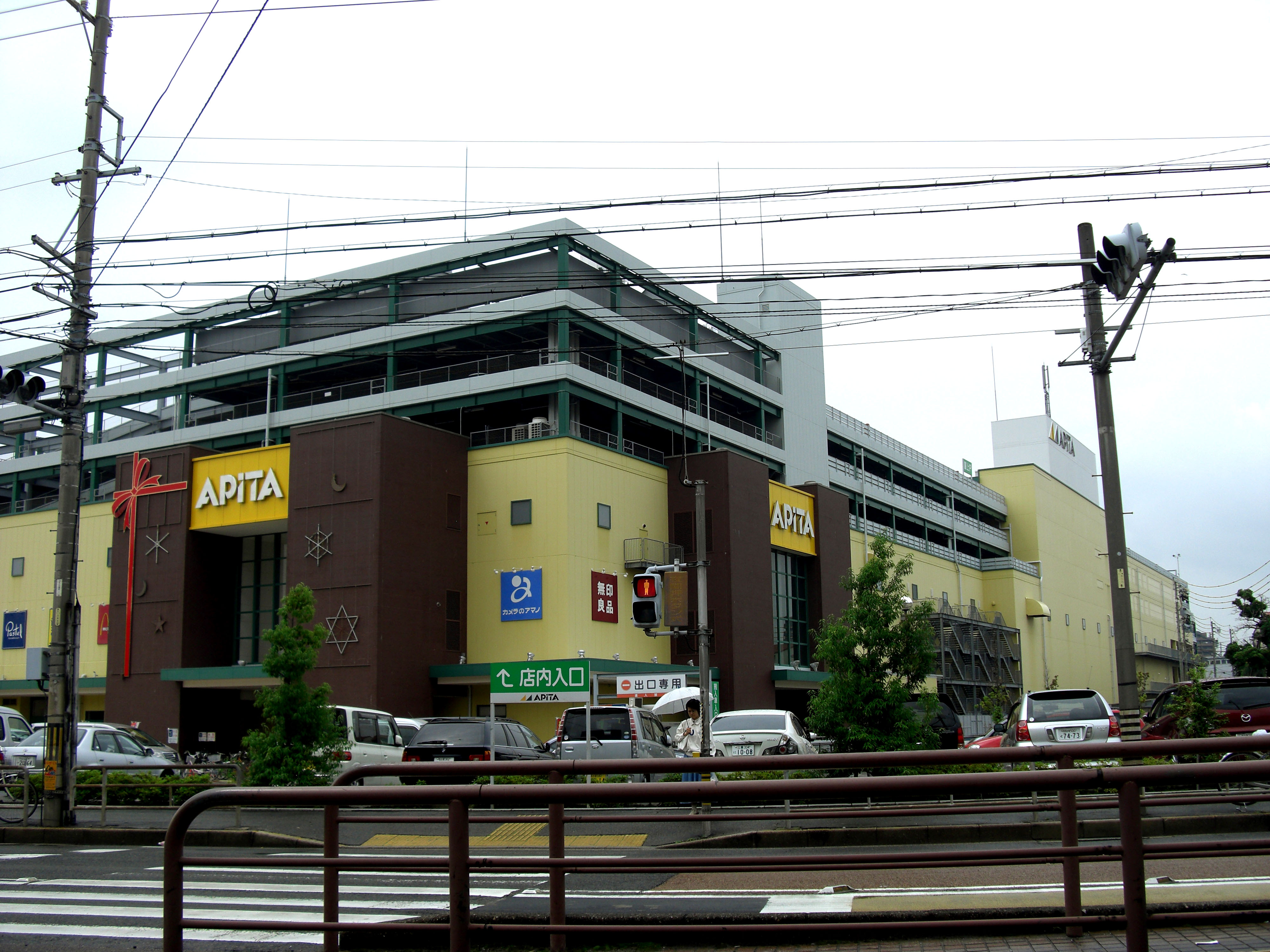 APITA Chiyodabashi,Chiyodabashii Chikusa-ku Nagoya-City Aichi Japan.